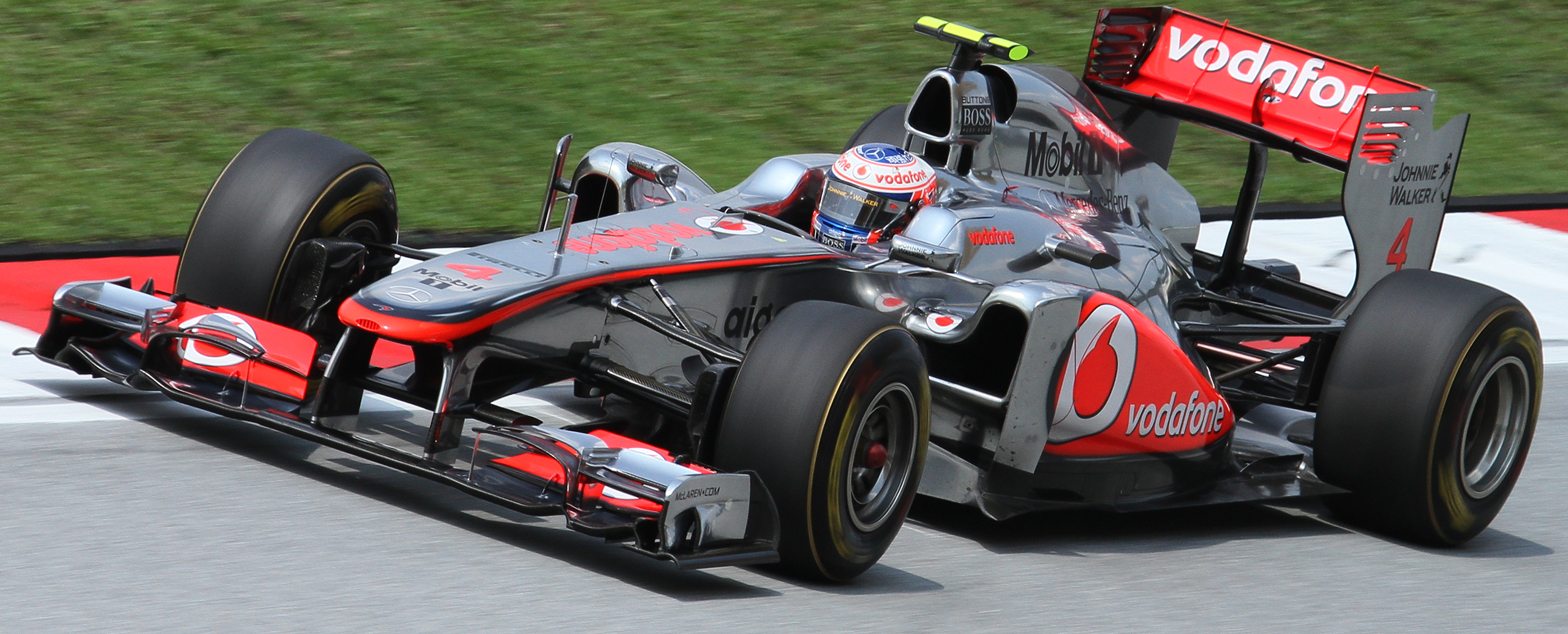 Formula One 2011 Rd.2 Malaysian GP: Jenson Button (McLaren) during the second practice session on Friday.